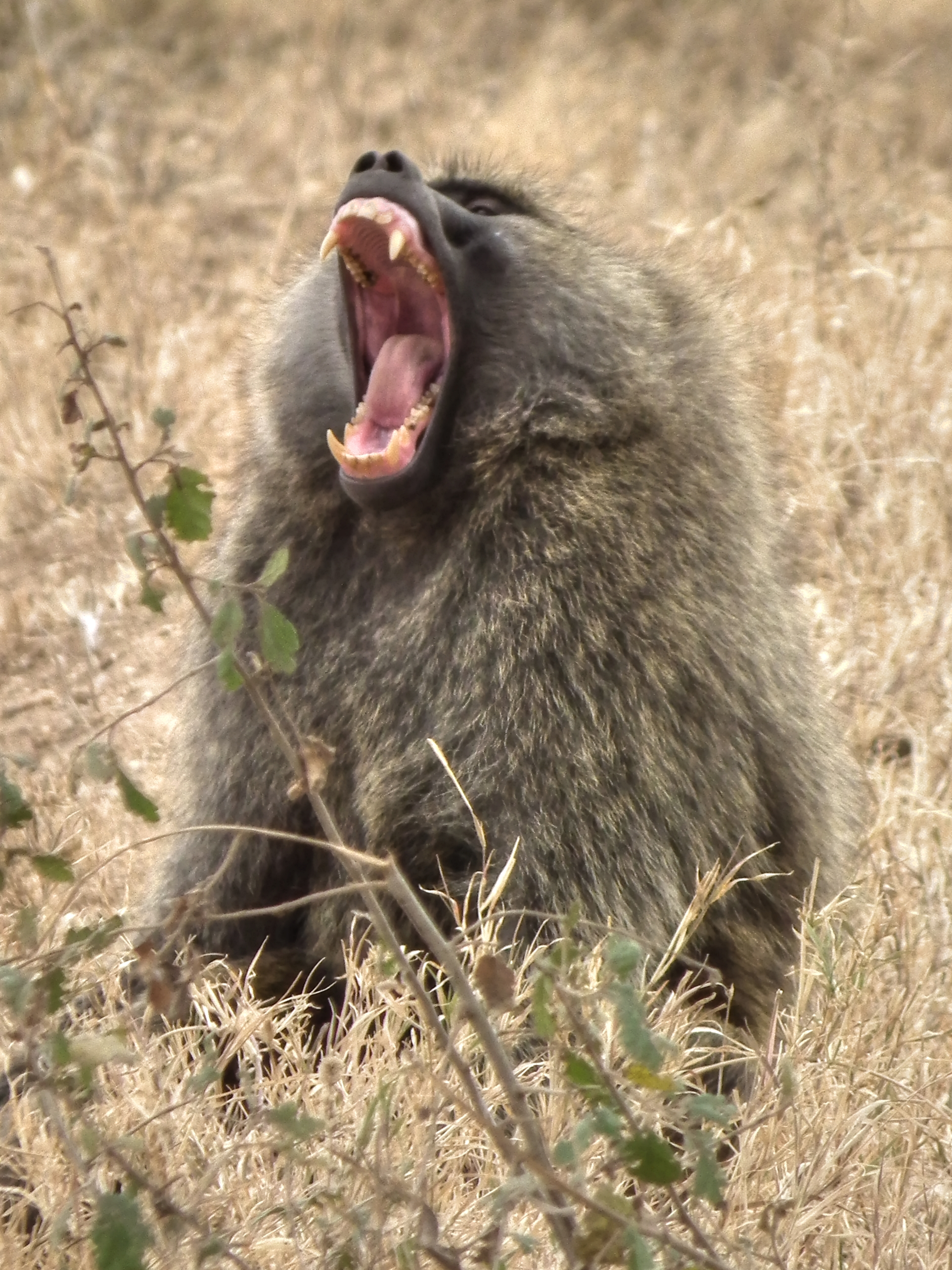 Olive Baboon Papio anubis, picture taken in Tanzania